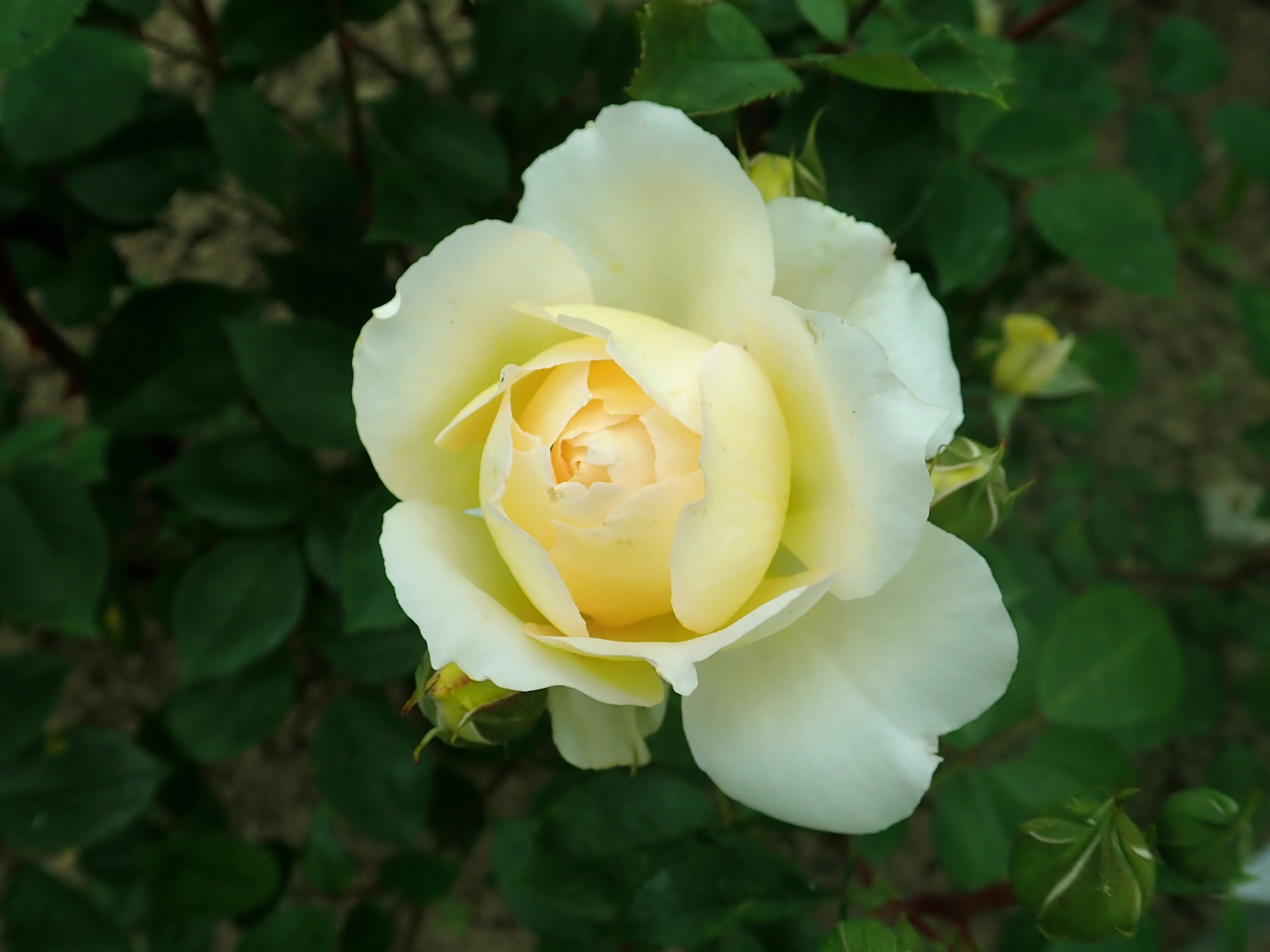 Rosa ‘Marc-Antoine Charpentier’ (D. Massad, 2000), Europa-Rosarium Sangerhausen.